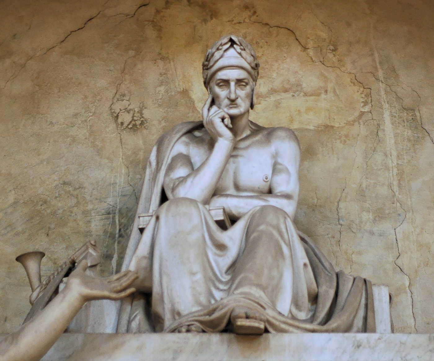 Portrait of Dante Alighieri by Stefano Ricci (1765–1837). Detail of his cenotaph (1830) in the Basilica of Santa Croce, Florence.